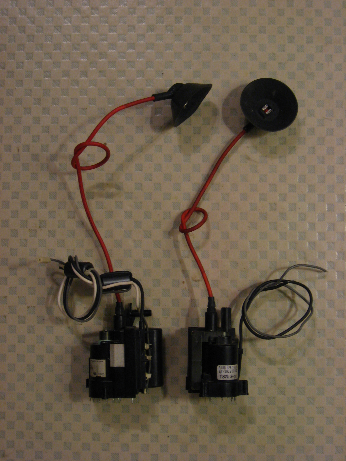 Two flyback transformers / juovamuuntaja